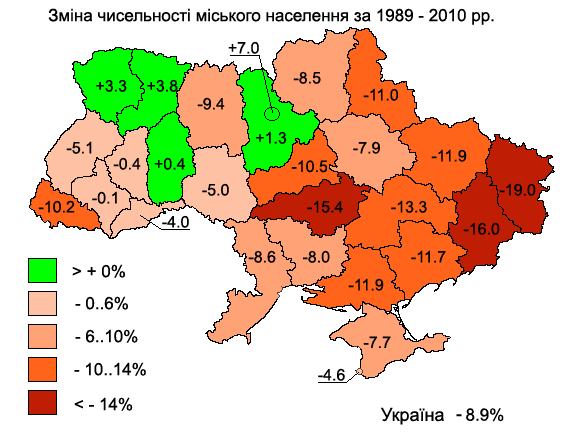 Changes in urban population of Ukraine 1989-2010